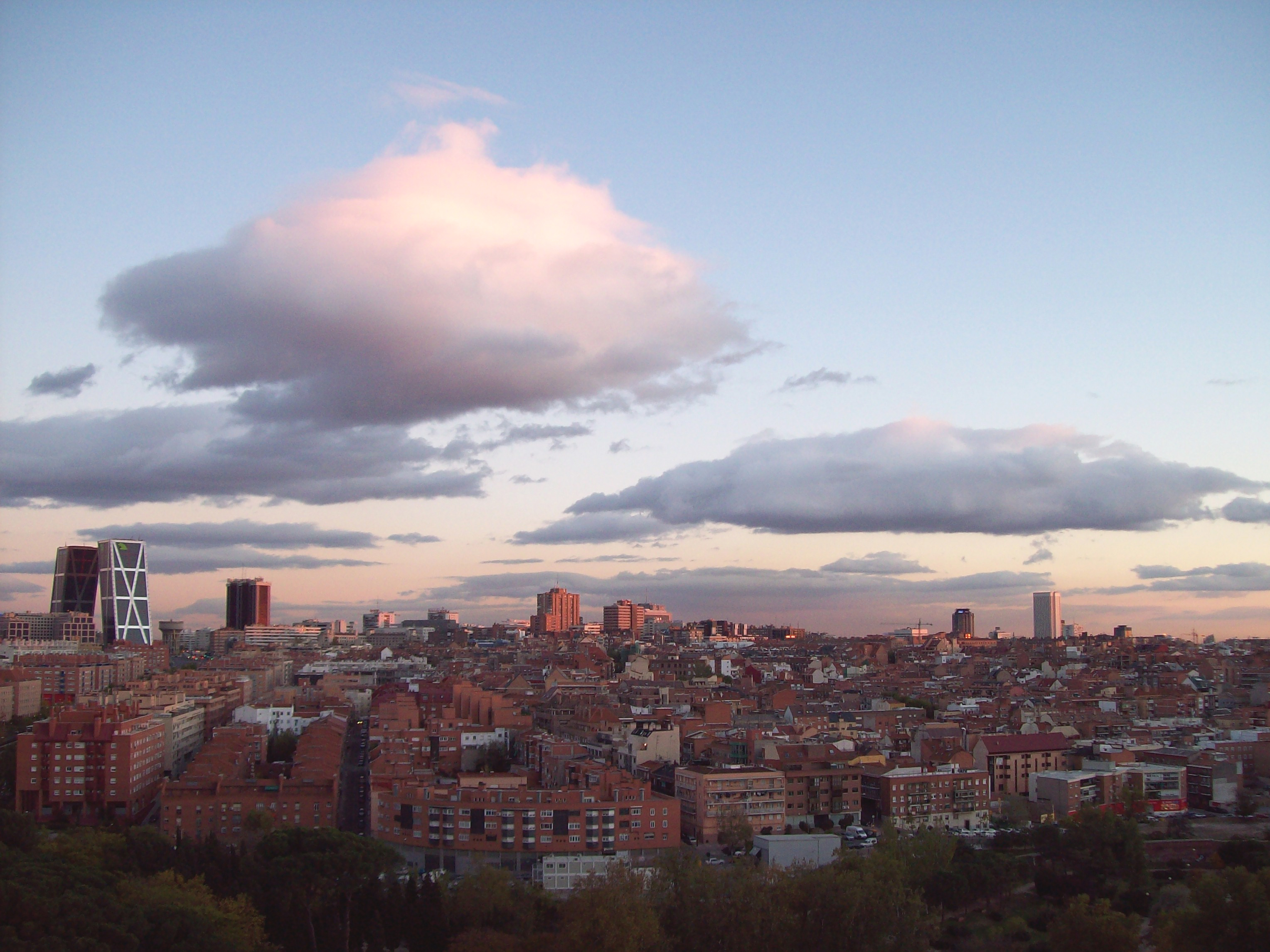 The sky over Tetuán district in Madrid (Spain). At the left, Puerta de Europa ("Gate of Europe") inclined buildings.